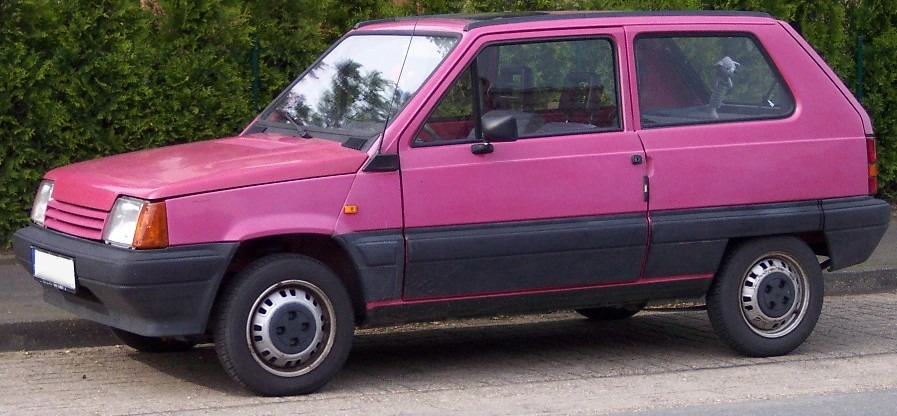 Seat Marbella 1st series, construction design similar to Fiat Panda